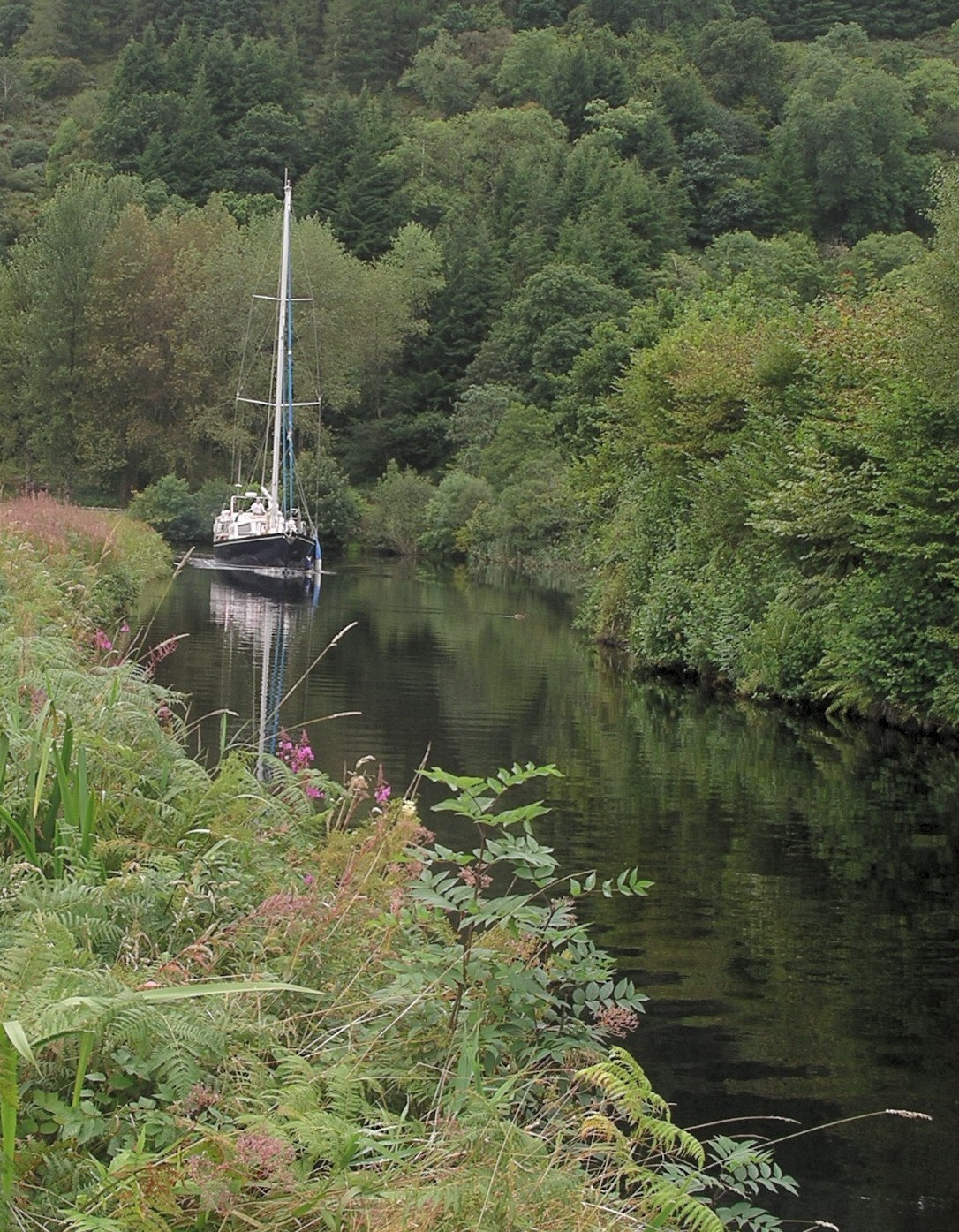 Yacht motoring along Crinan Canal Author: User:Velela. Location: Crinan canal September en:2004 Source: Personal photograph taken by Author Technical data: Pentax Optio 555 digital camera.